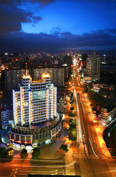 Taijiang District of Fuzhou. Tagalog: Distrito ng Taijiang ng Fuzhou, Tsina.